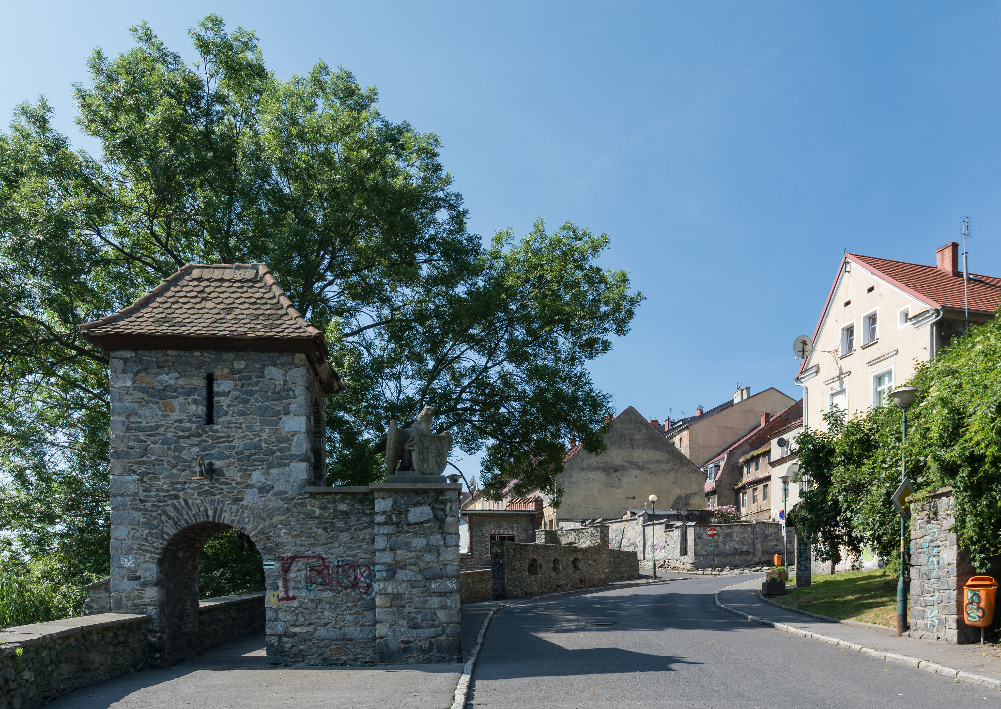 Lower Gate in Niemcza